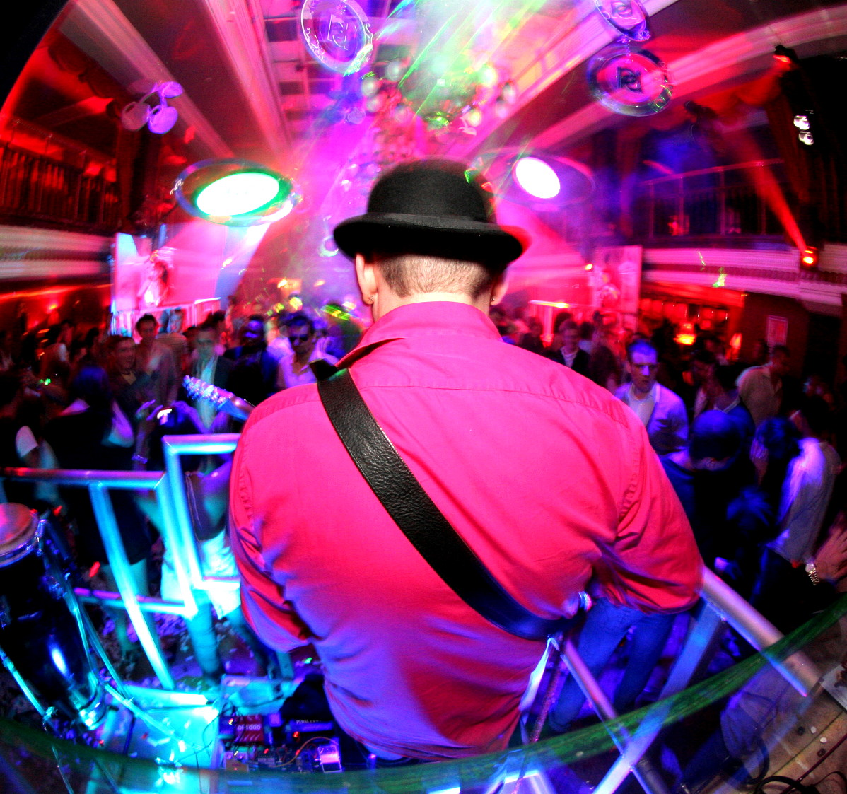 Tim Scott's live Guitar Mashing at Pacha, London 2007 playing his notable Sparkly Pink Fender Telecaster